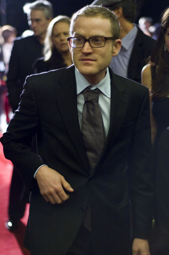 John Safran at the Melbourne International Film Festival 2009 Opening Night Red Carpet.